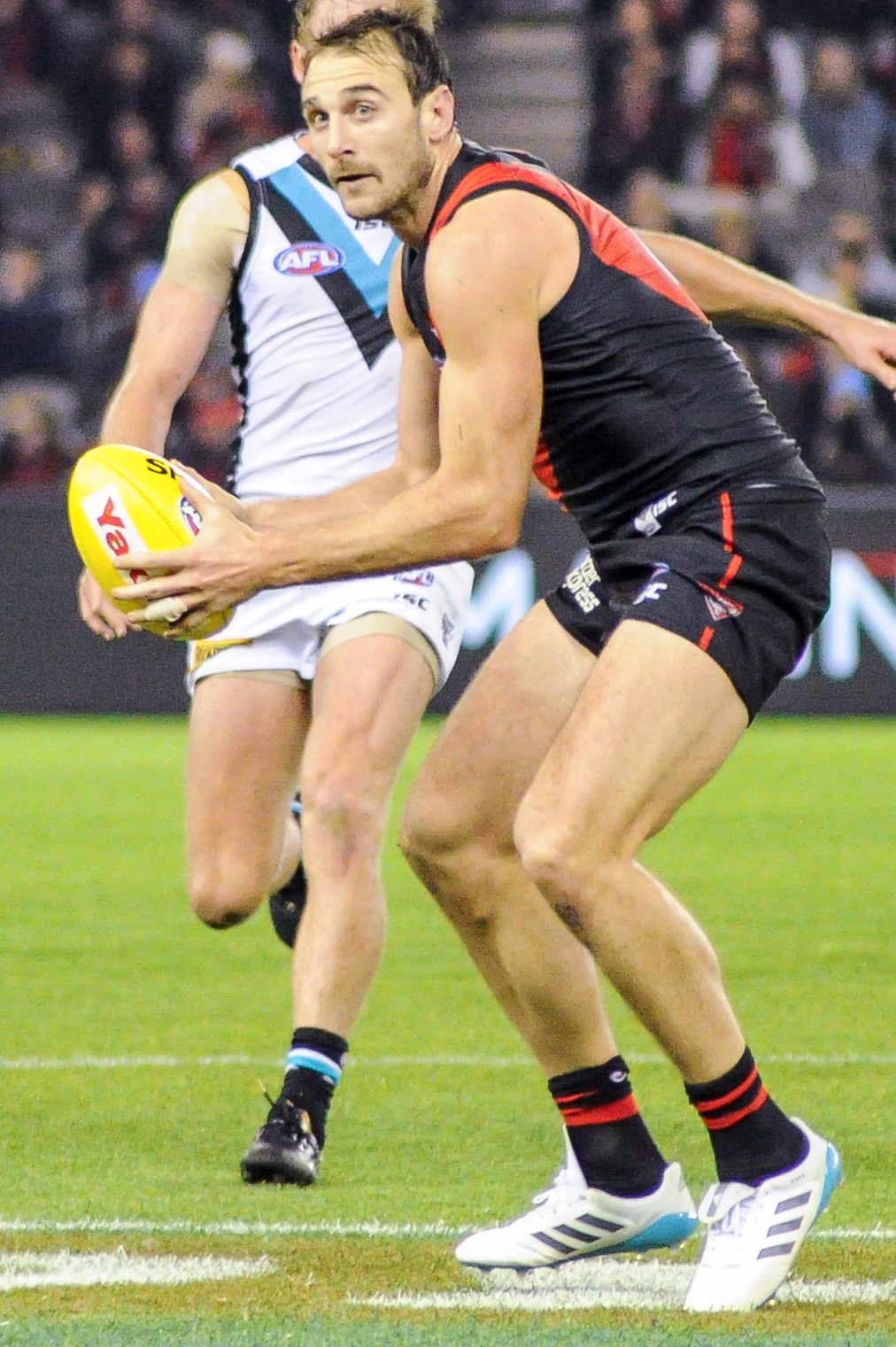 Jobe Watson during the AFL round twelve match between Essendon and Port Adelaide on 10 June 2017 at Etihad Stadium in Melbourne, Victoria.